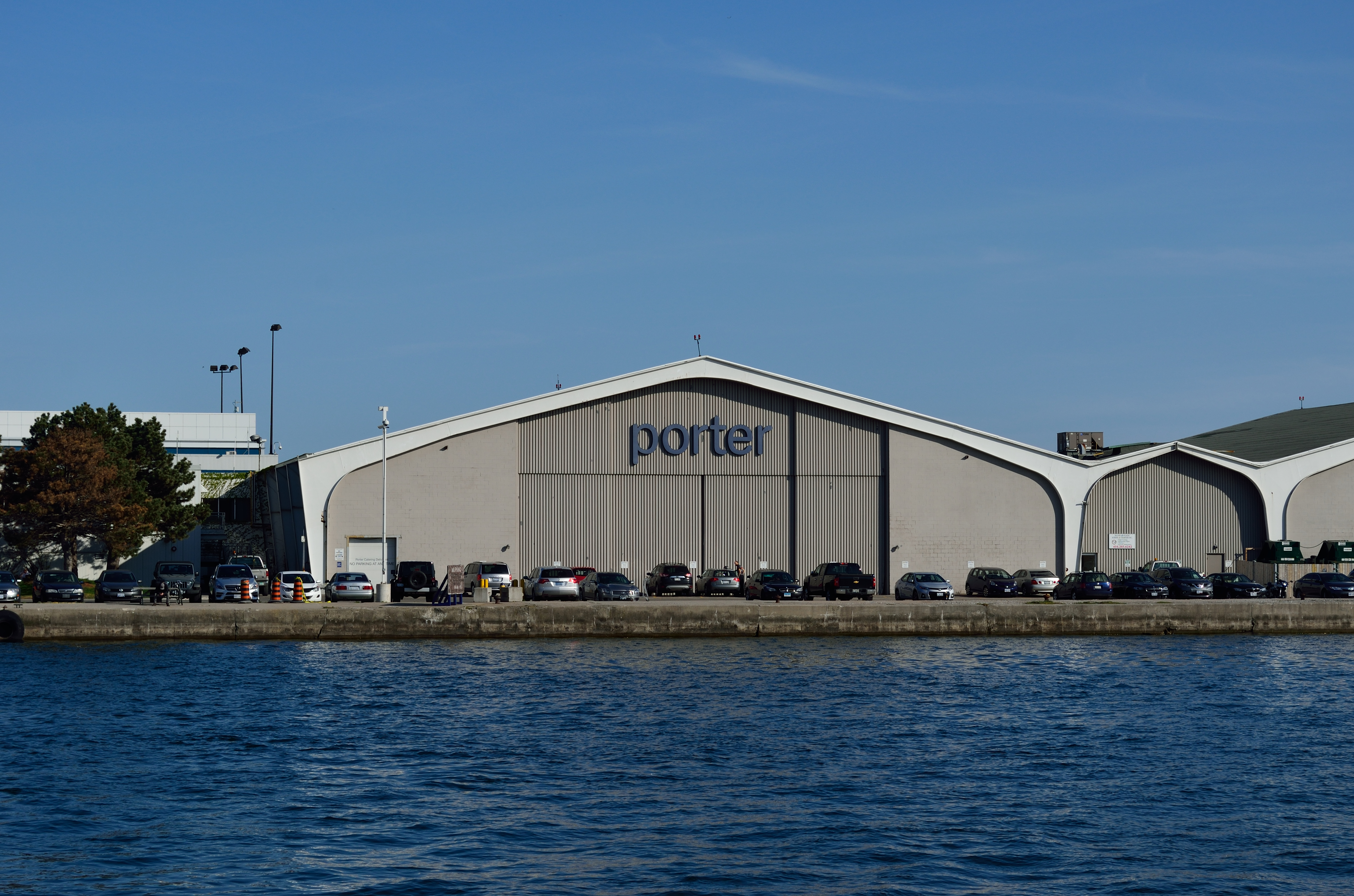 Porter Airlines Building at Billy Bishop Toronto City Airport